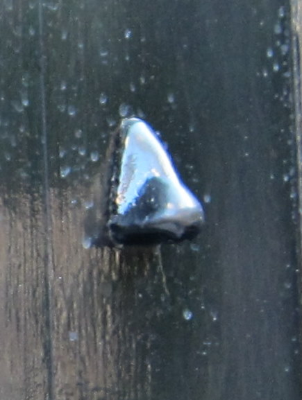 The London Nose at Quo Vadis in Soho.